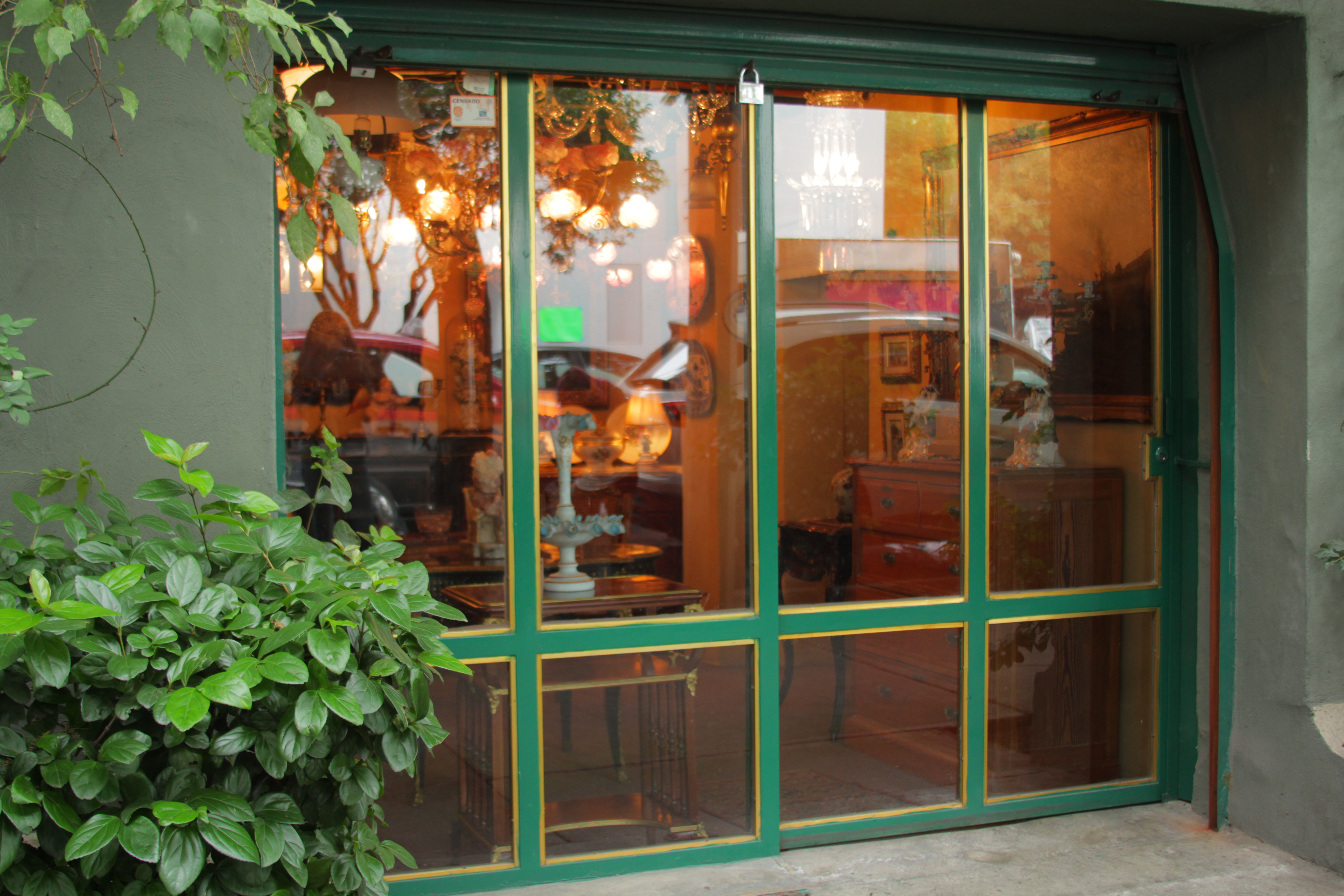 Local in the Edificio Condesa located in Col. Condesa in Mexico City.